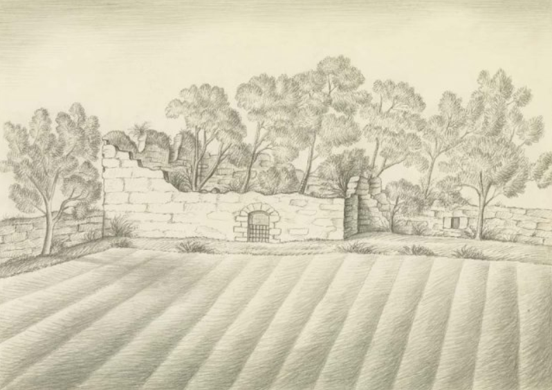 Drawing of Carribber Castle, also known as Rob Gibb's Castle, in West Lothian, Scotland. Drawn by Alexander Archer May 1837.